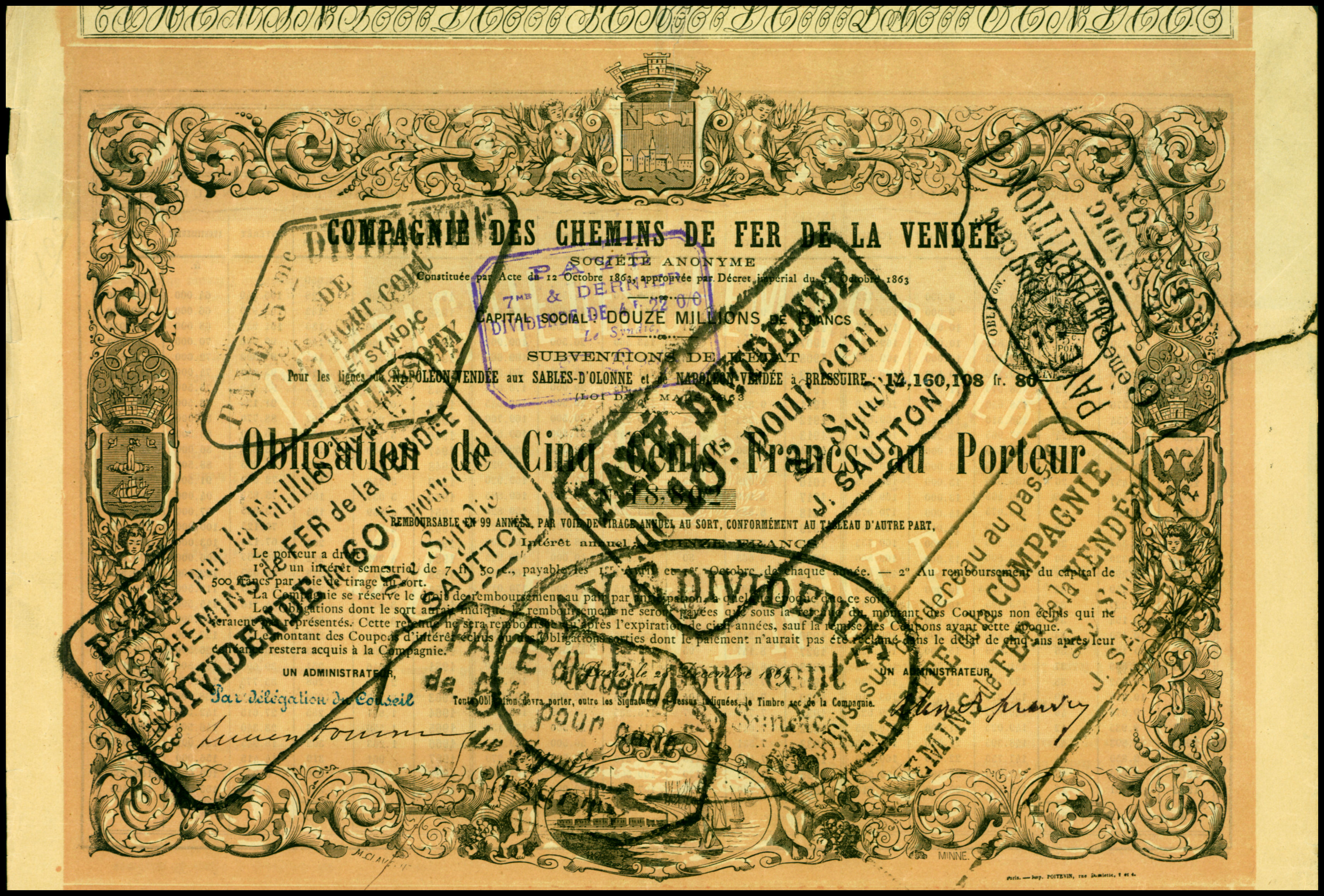 Bond of the Compagnie des chemins de fer de la Vendée, issued 28. December 1869